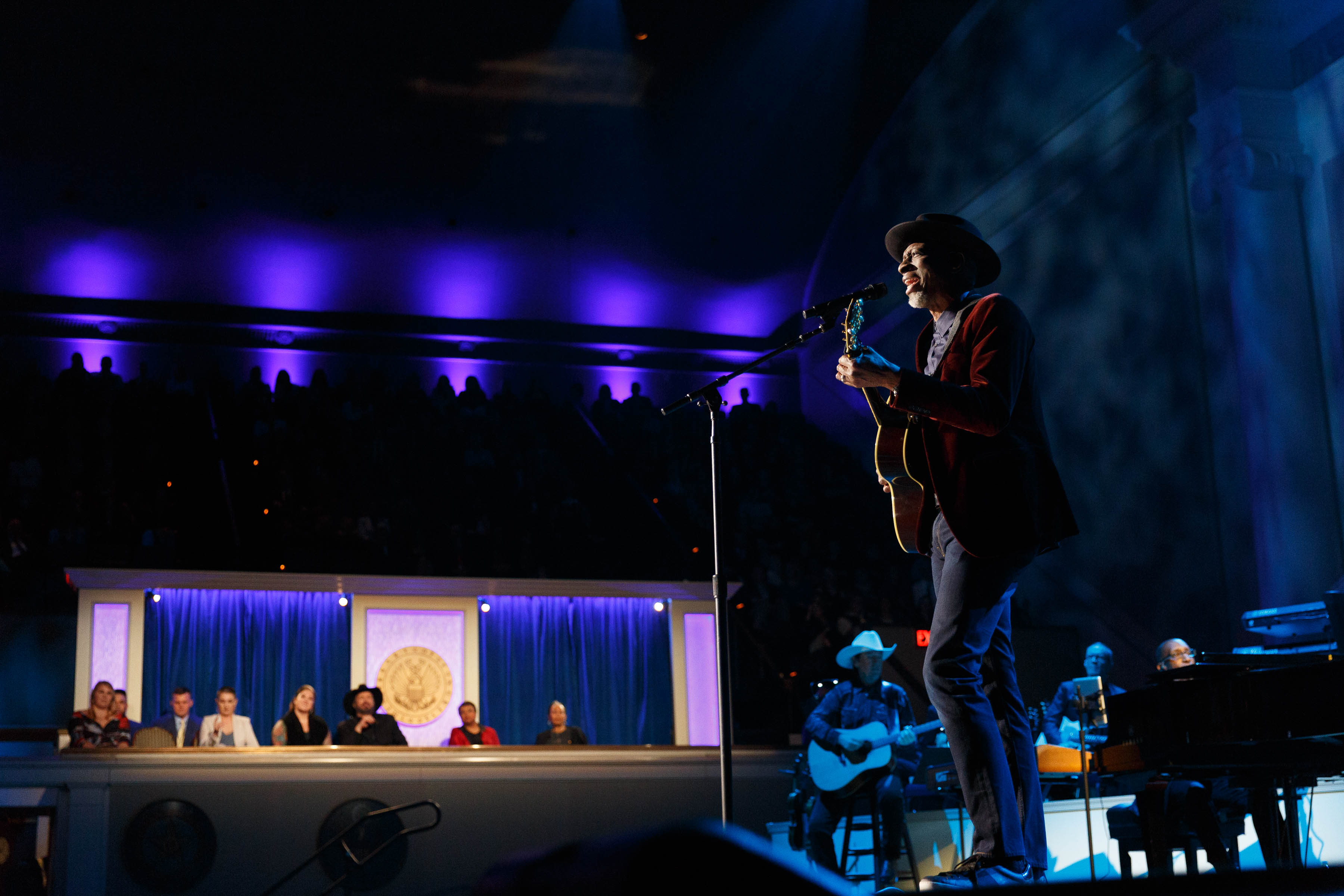 Keb Mo performs "The River" at the 2020 Library of Congress Gershwin Prize for Popular Song concert honoring Garth Brooks at DAR Constitution Hall in Washington, D.C., March 4, 2020. Photo by Shawn Miller/Library of Congress. Note: Privacy and publicity rights for individuals depicted may apply.